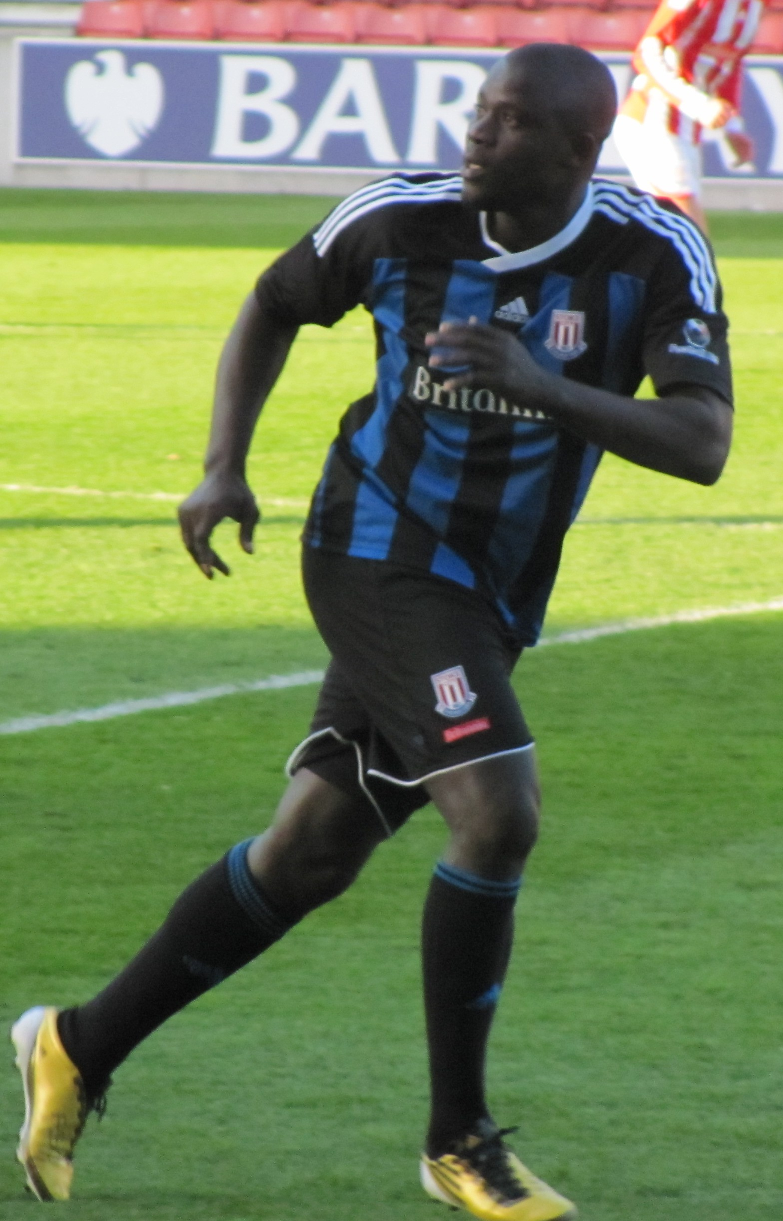 Amdy Faye in Stoke City colours